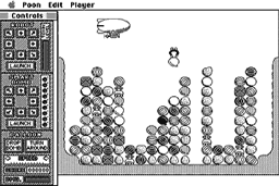 Toxic ravine- Video game. This is my image which I release into the public domain.